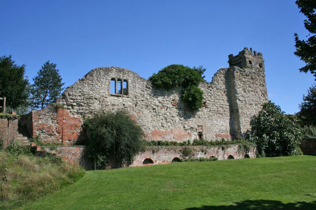 Castle gardens 3 Has to be part of the keep. The preserved walls in the Garden.